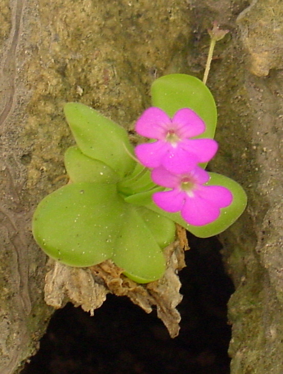 Pinguicula elizabethiae in situ, Toliman Canyon, Hidalgo state, Mexico.